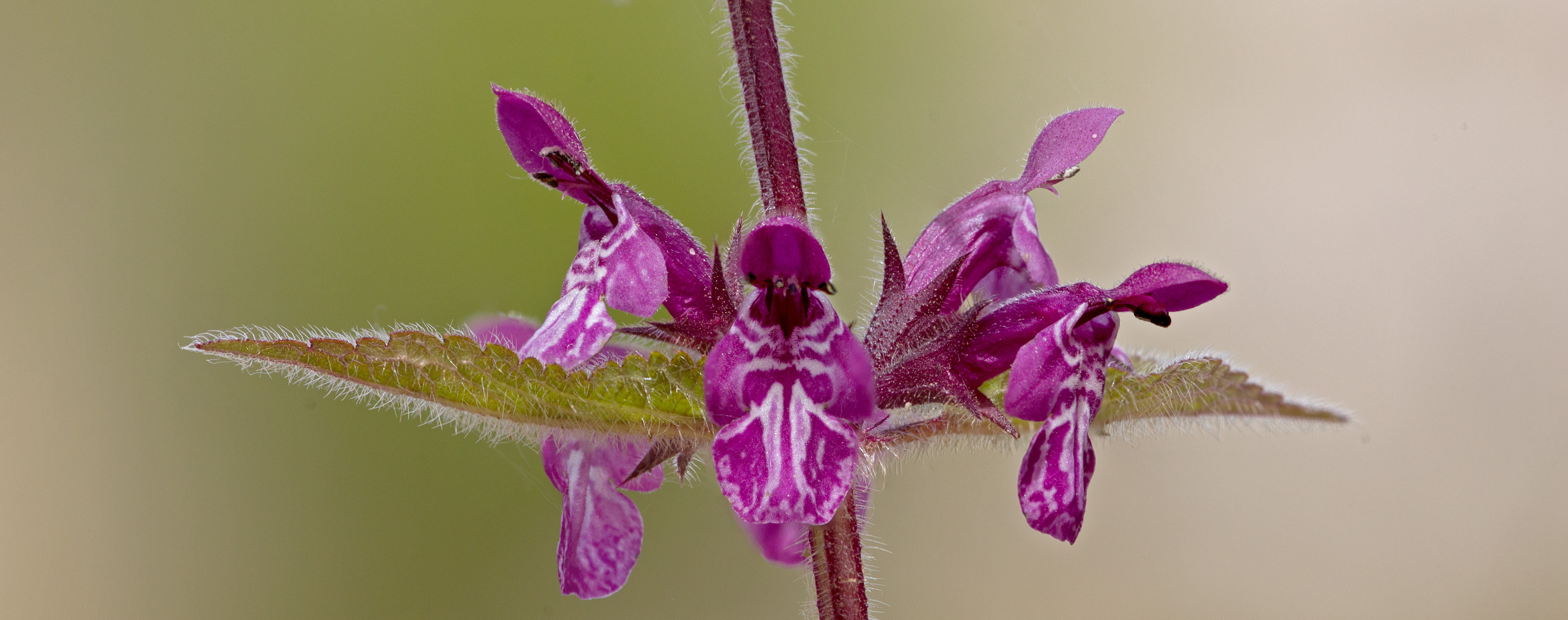 Stachys sylvatica